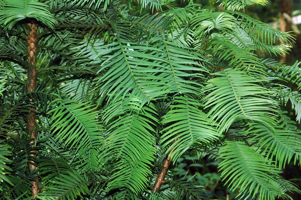 Wollemia nobilis, Palmengarten, Frankfurt/Main, Germany